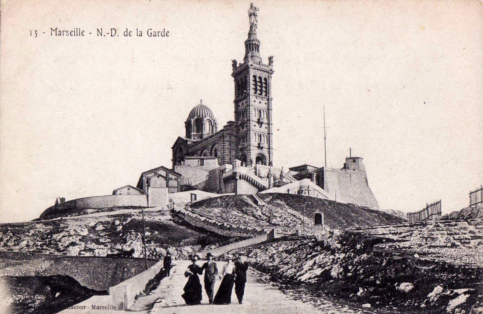 Marseille. Basilica of Our Lady of the Guard. Postcard, c. 1910. Publisher: E. Lacour. Marseille.